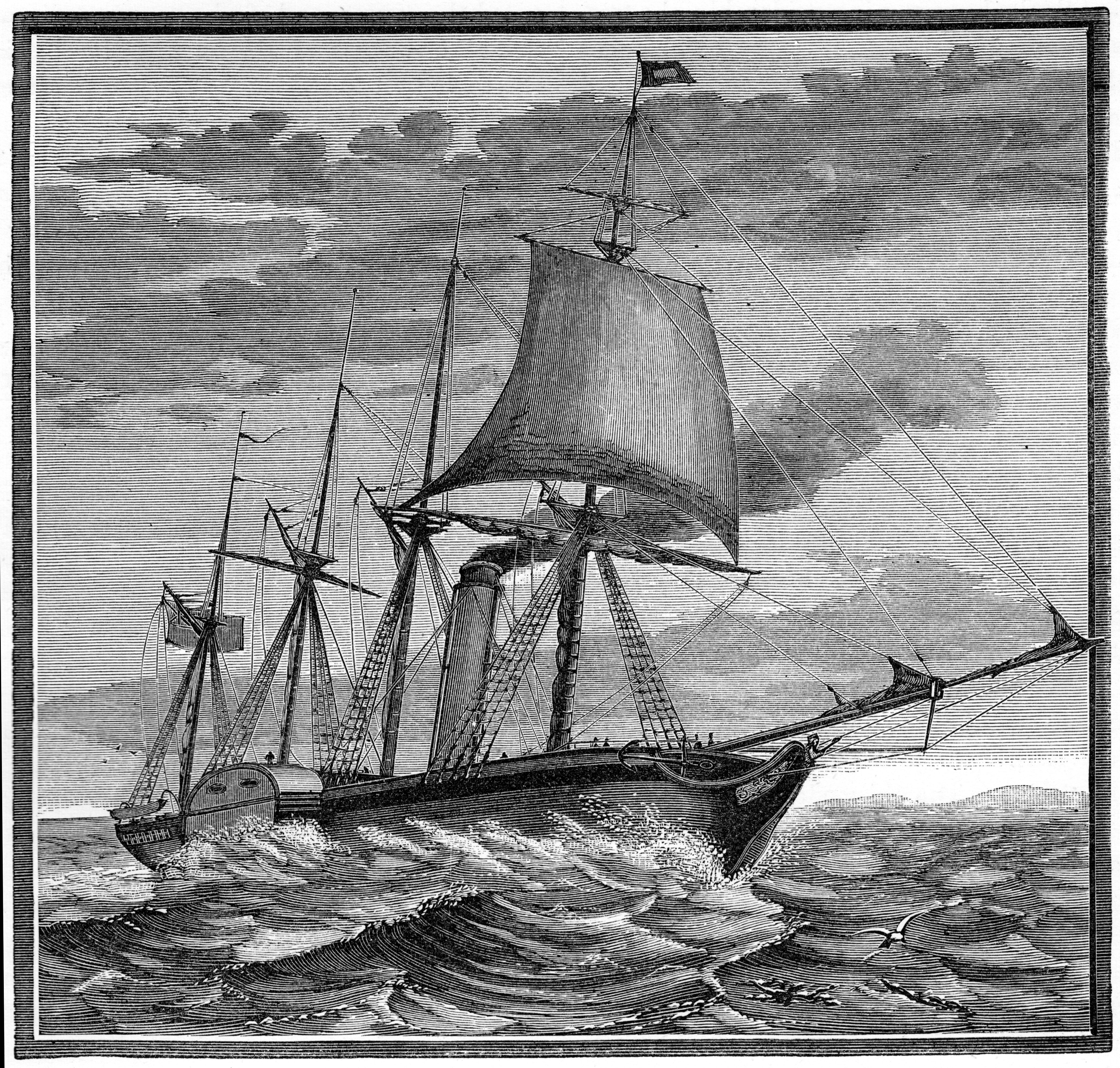 The SS Great Western